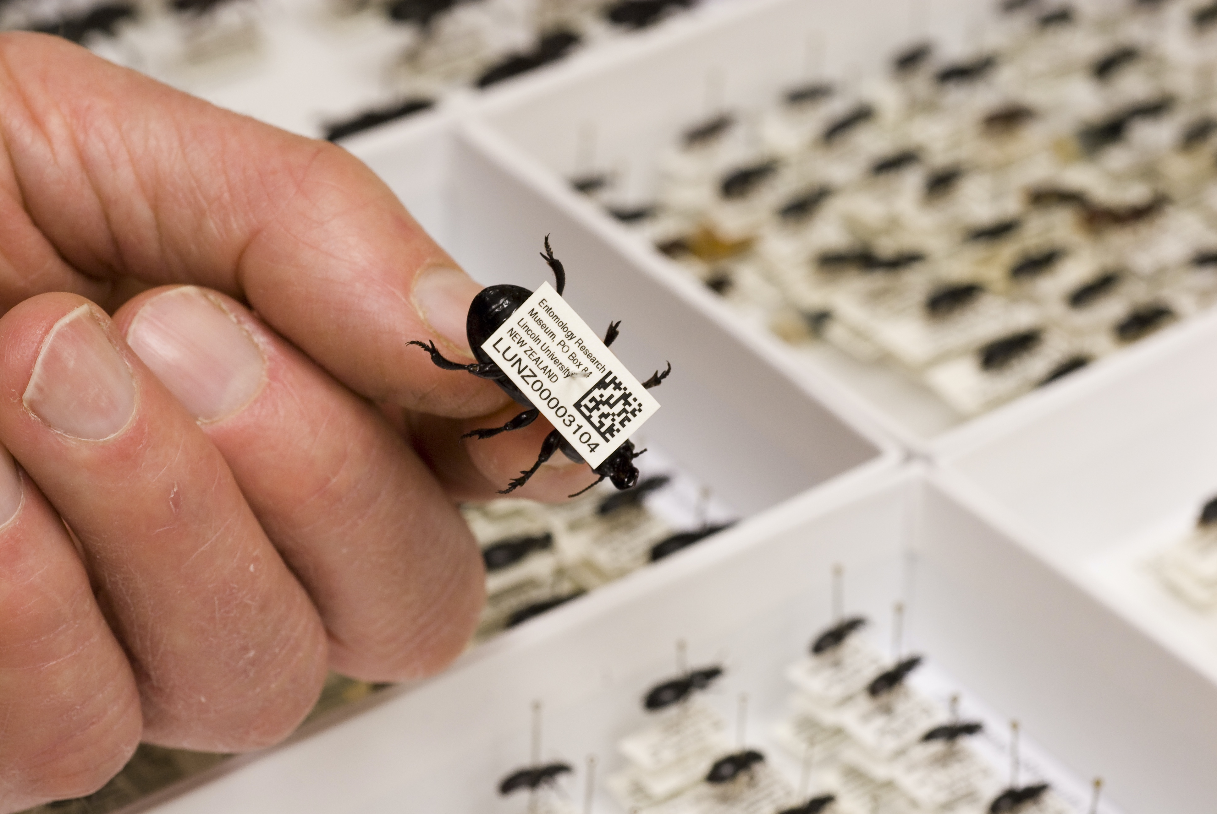 Example of a collection barcode on a pinned beetle specimen in the Entomology Research Collection at Lincoln University.